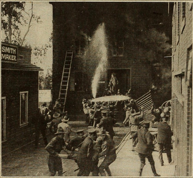 Still from 1915 silent film "The Lost House" which appears in March 13, 1915 issue of Reel Life. - Caption says "Ford and Dosia Leaped into the Waiting Life-net"